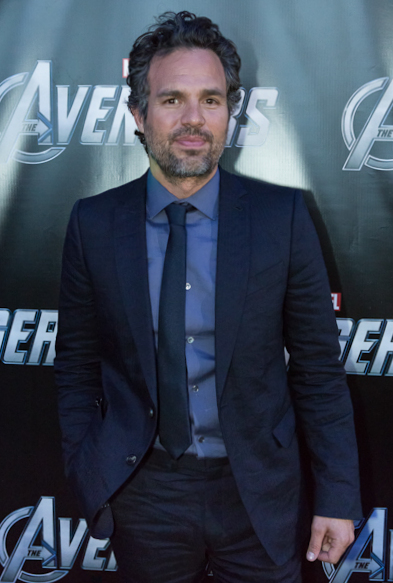 Mark Ruffalo at the Toronto premiere of Marvel's The Avengers 2012.